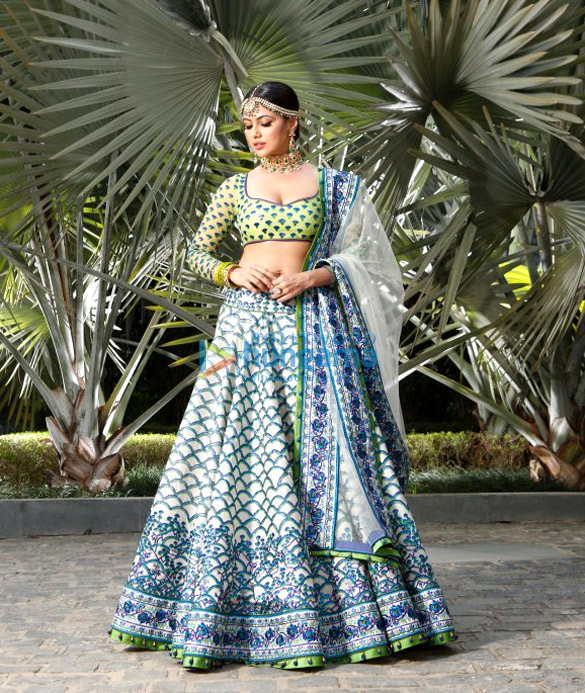 Sana Khan snapped doing a shoot for designer Reynu Tandon, Feb 21, 2018